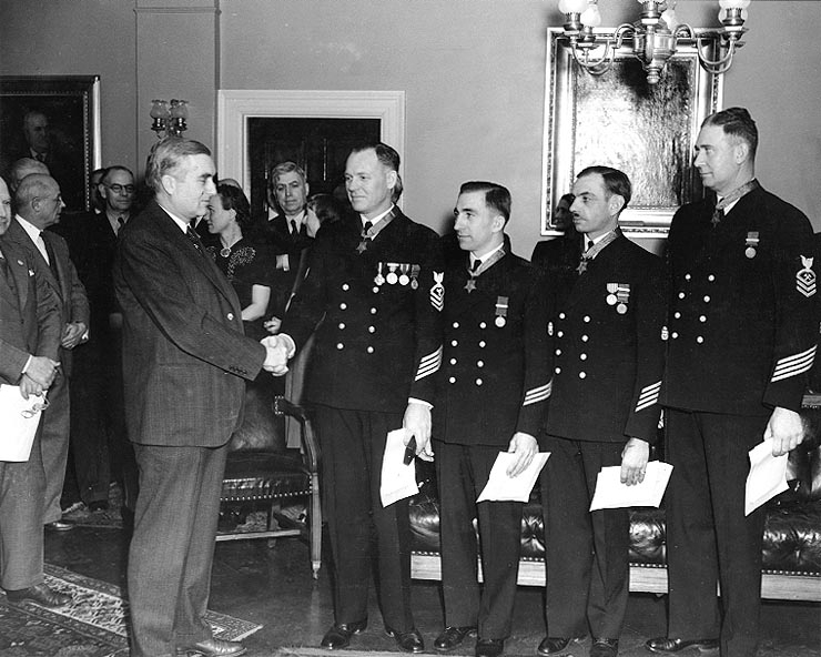 Secretary of the Navy Charles Edison congratulates four heros of the Squalus rescue and salvage operations after presenting them with Medals of Honor during ceremonies at the Navy Department on 19 January 1940. The four men, all qualified as Divers, are (from left to right): Chief Machinist's Mate William Badders Chief Torpedoman John Mihalowski Chief Boatswain's Mate Orson L. Crandall Chief Metalsmith James Harper McDonald